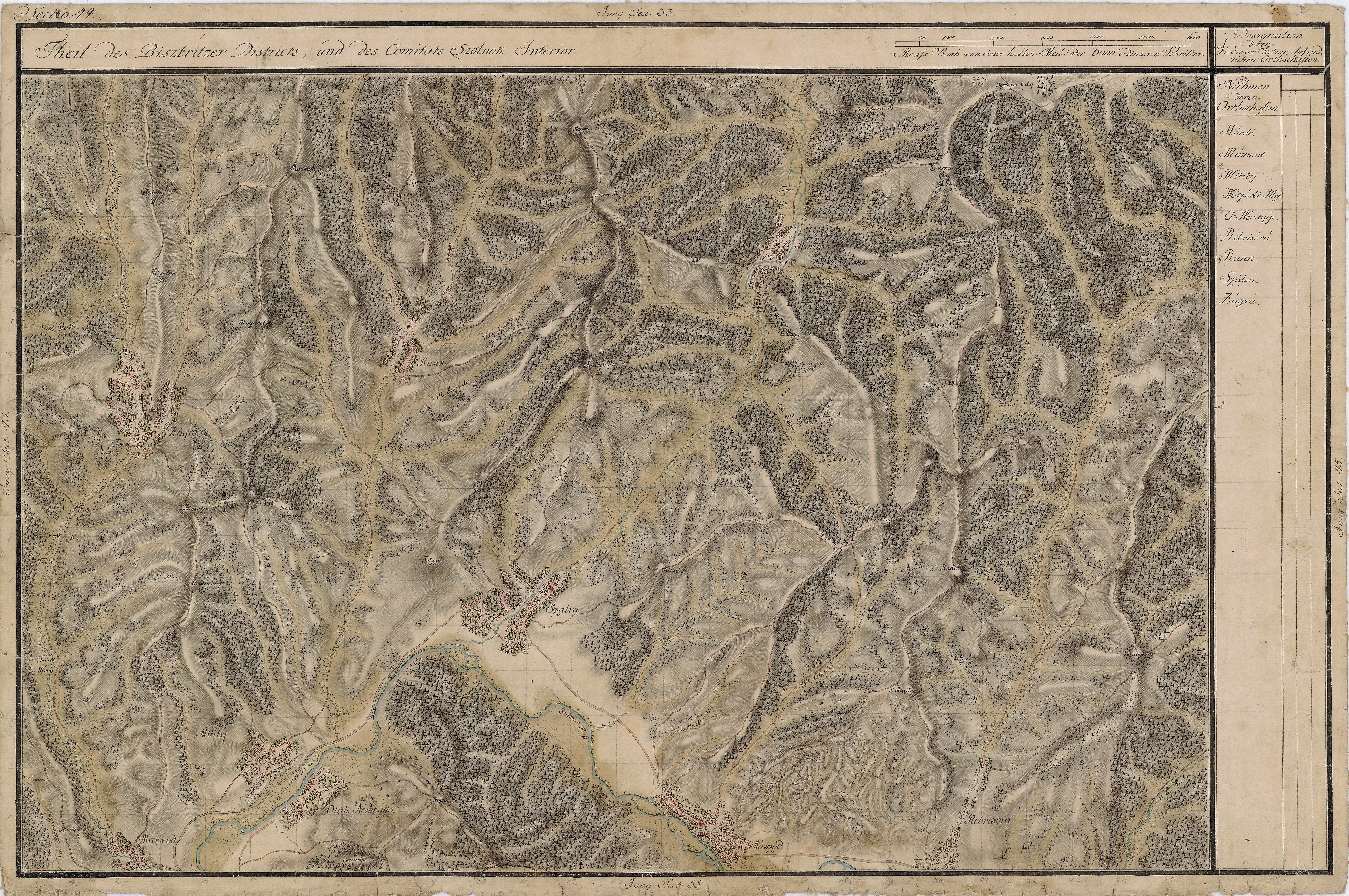 Grand Duchy of Transylvania, 1769-1773. Josephinische Landaufnahme pg.044